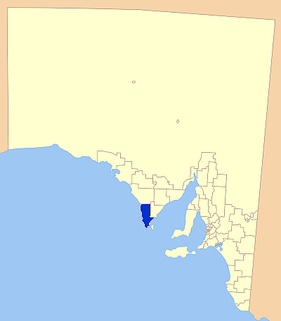 Map of South Australia showing the location of the Lower Eyre Peninsula Local Government Area. A modification of GDFL map by Astrokey44; found here: File:SA_LGA_blank.png